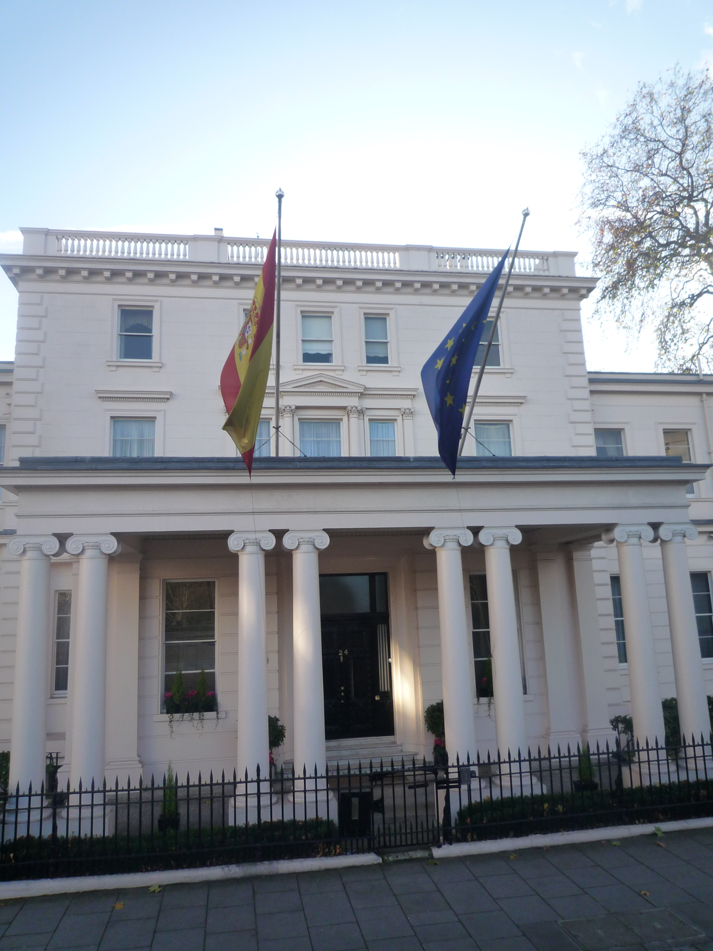 Embassy of Spain, London